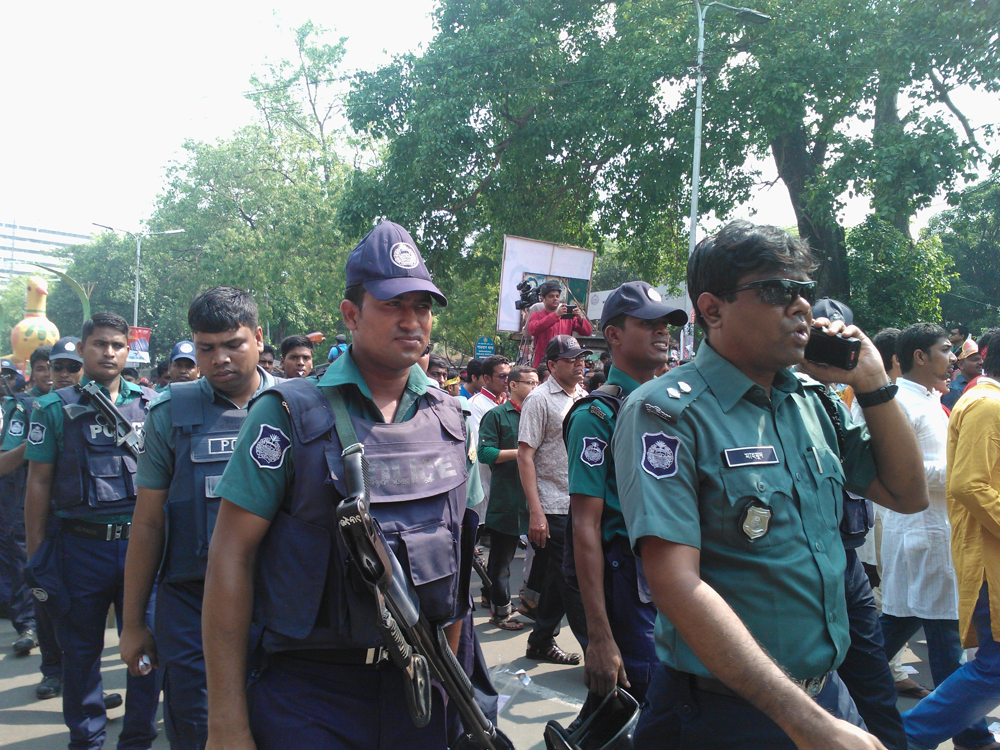 Bangladesh Police